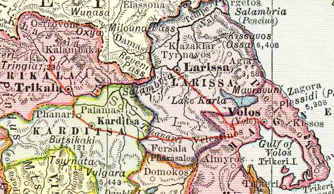 Part of a map of the Kingdom of Greece, the Cretan State and the Principality of Samos in 1903. It displays the Thessaly Railways network as it was in 1900-1901.